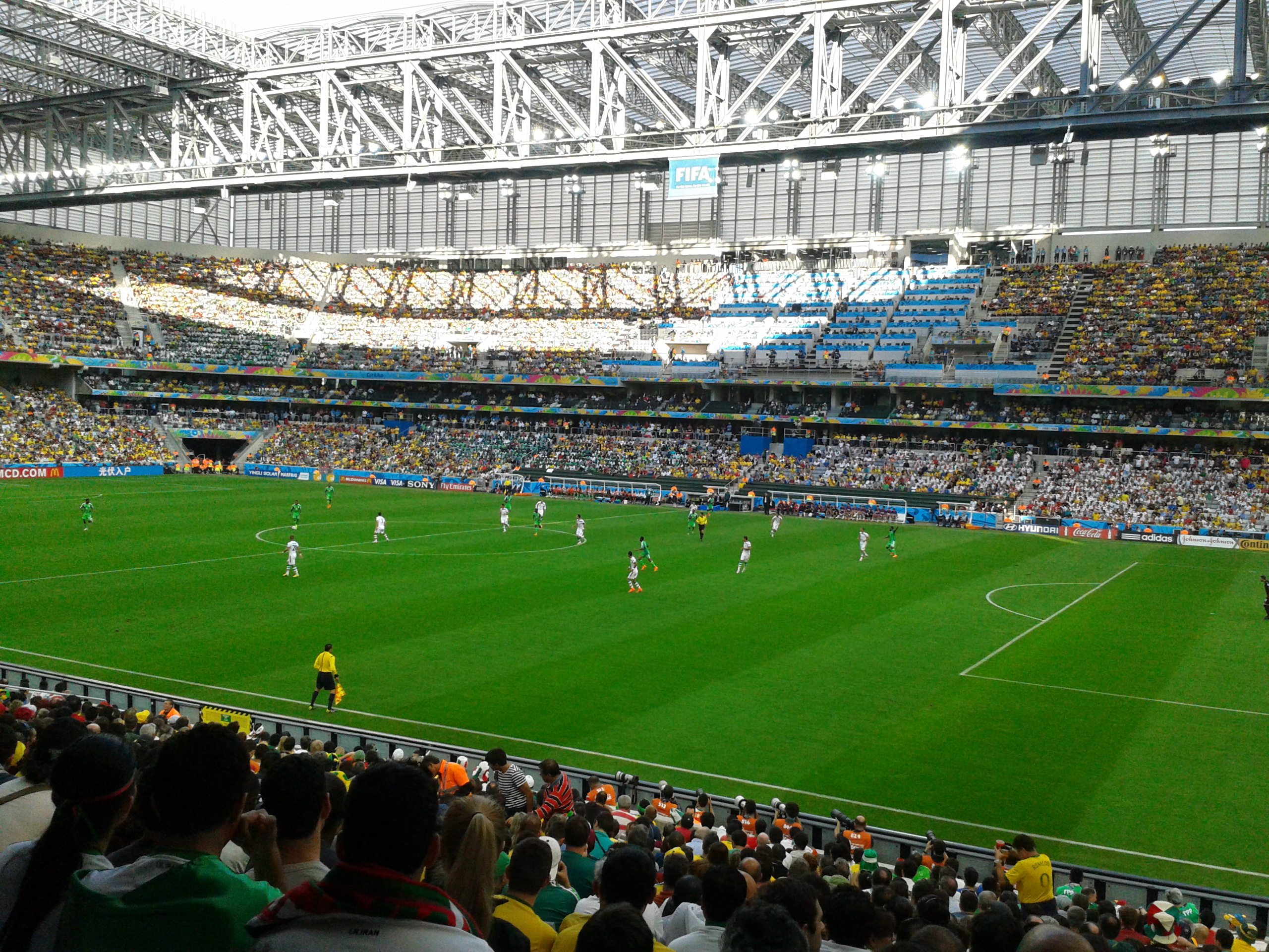 Iran and Nigeria match at the FIFA World Cup (2014-06-16)